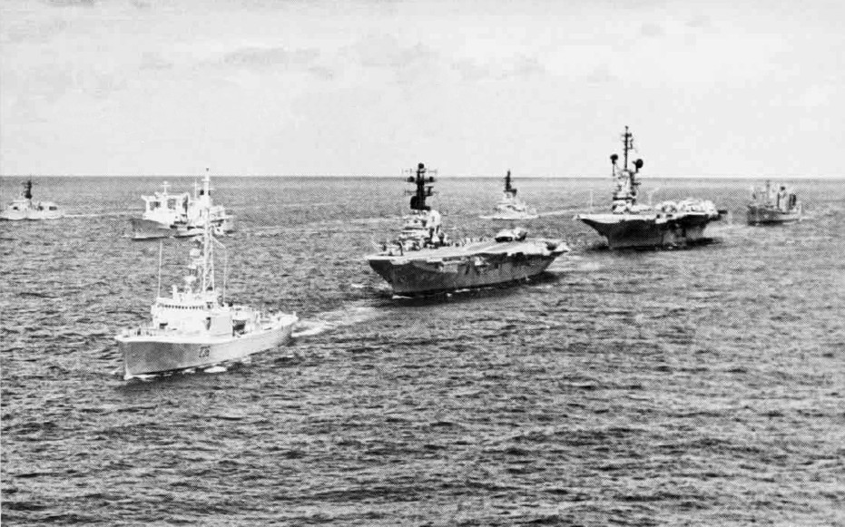 Canadian, Australian, and U.S. Navy ships underway near Hawaii (USA) during the "RIMPAC '72" exercise. Identifiable ships are the frigate HMCS Gatineau (DDE 236), followed by the aircraft carriers HMAS Melbourne (R21) and USS Ticonderoga (CVS-14).